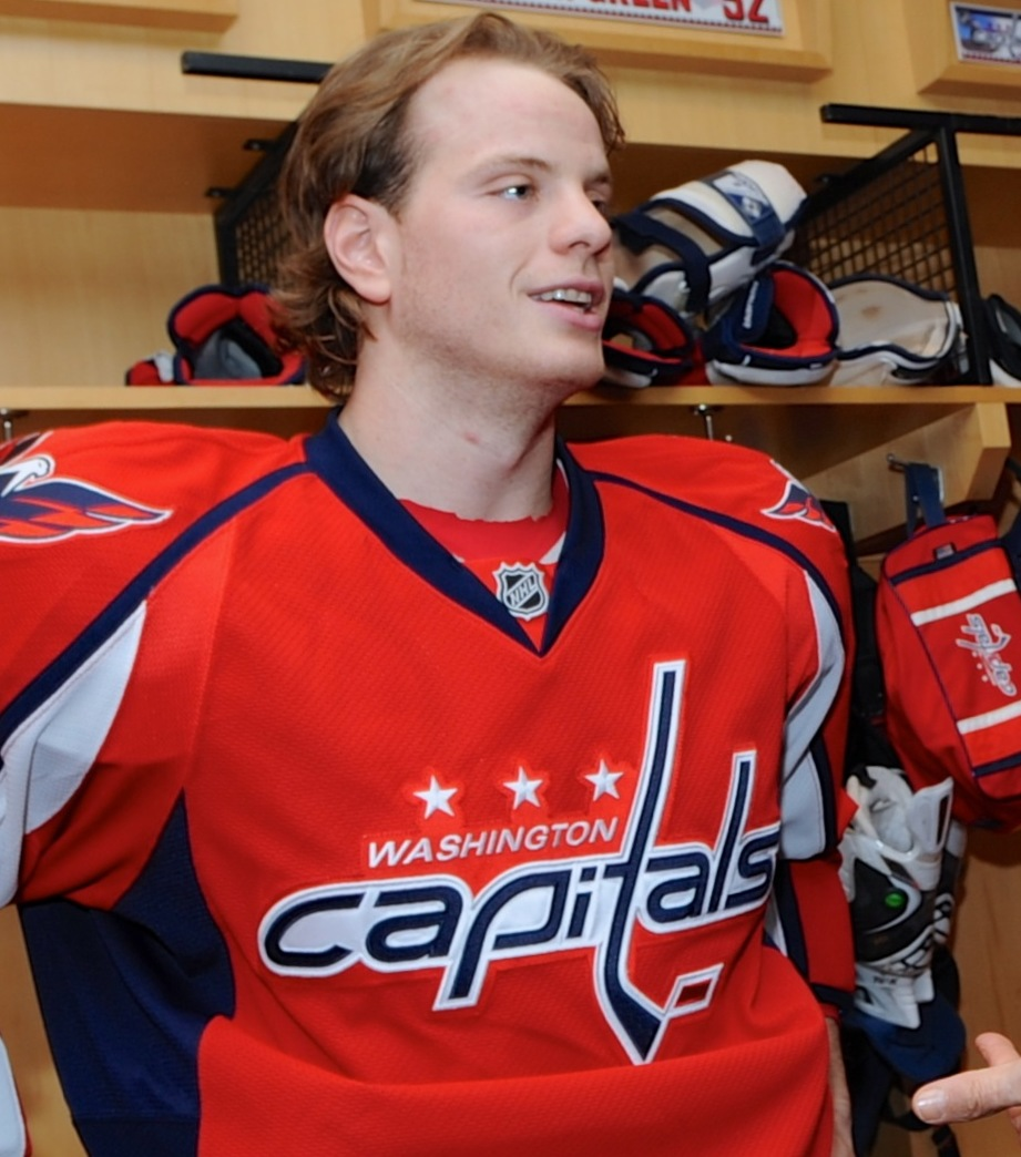 U.S. Secretary of State John Kerry greets Washington Capitals player -- and U.S. Olympian -- John Carlson before dropping the puck and sending off Olympic hockey players as the Caps played the Winnipeg Jets at the Verizon Center in Washington, D.C., on February 6, 2014. [State Department photo/ Public Domain]